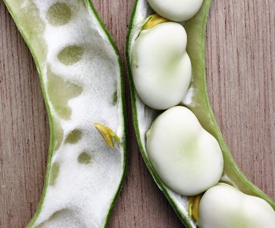 Vica faba or broad beans, known in the US as fava beans.